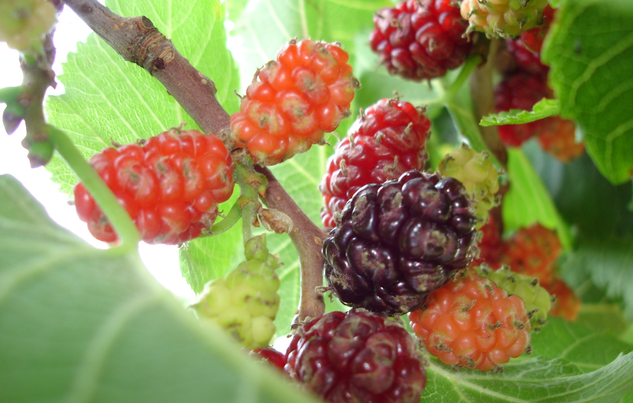 Ripening fruit of a black mulberry.